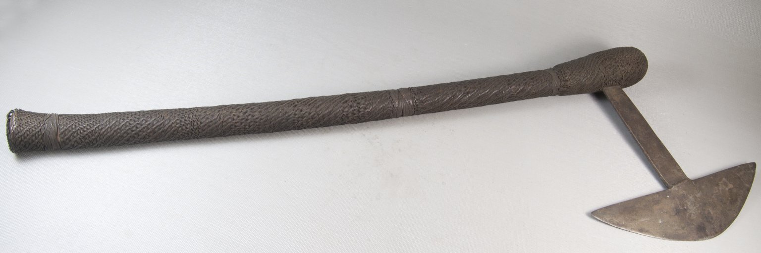 AxeIsiZulu: ngembazo, izembe